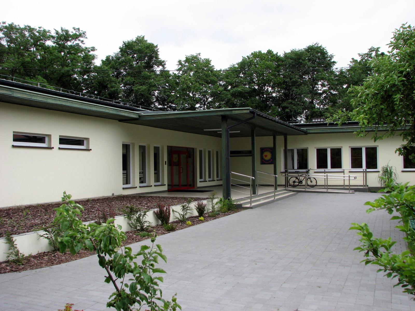 Secondary/high school for visually impaired children in Laski, Poland